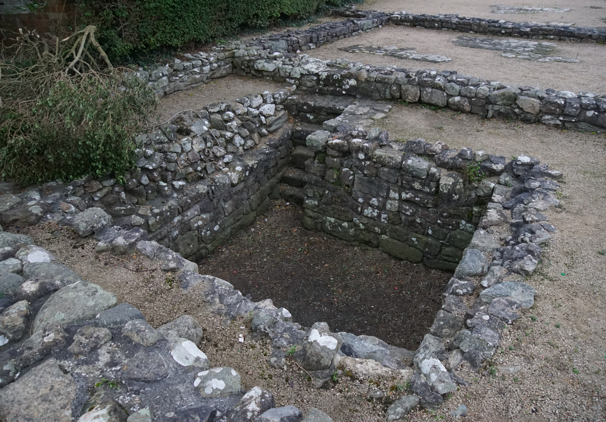 Segontium Roman Fort, Caernarfon, Wales. Strongroom below sacellum in the principia.